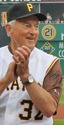 Bill Mazeroski tips his cap to the crowd during the 1960 World Series anniversary celebration at PNC Park in Pittsburgh, Pennsylvania. Vern Law and Bob Oldis are on either side of him.